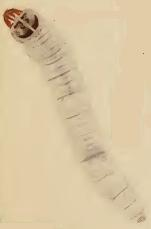 Stainton’s Natural History of the Tineina (1855–1873): Elachista gleichenella